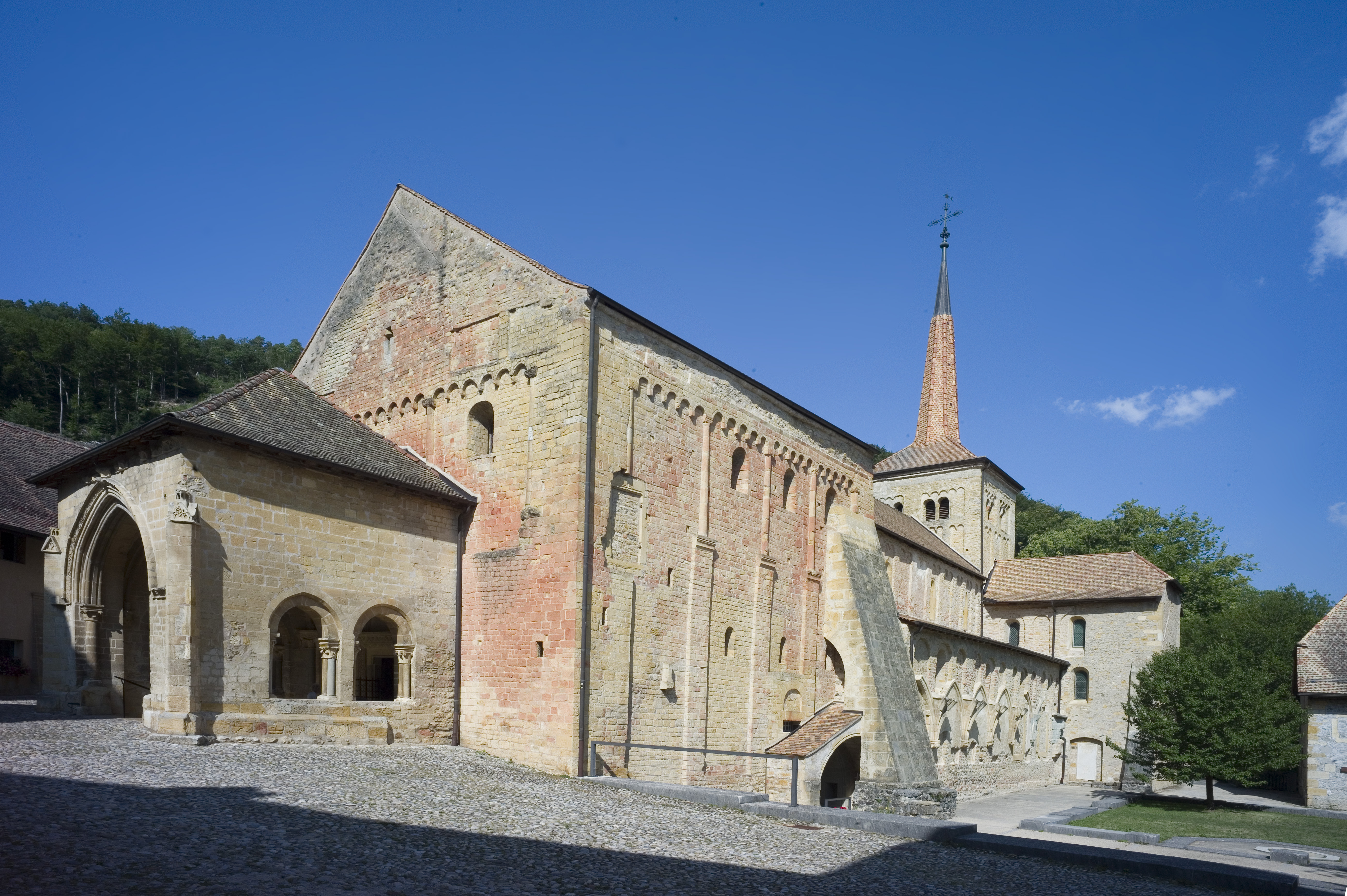 Romainmôtier, Vaud, Switzerland: exterior of the church